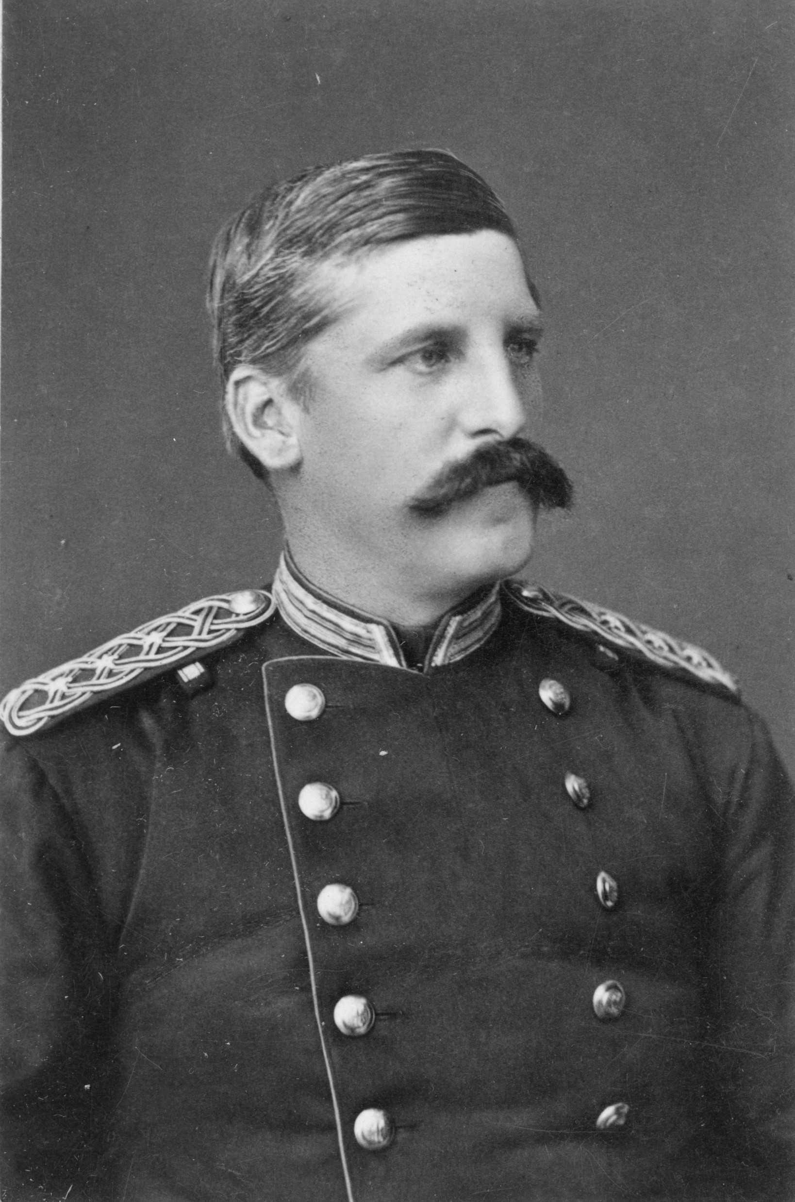 Swedish army officer and politician Georg von Heijne Lillienberg (1837-1921)